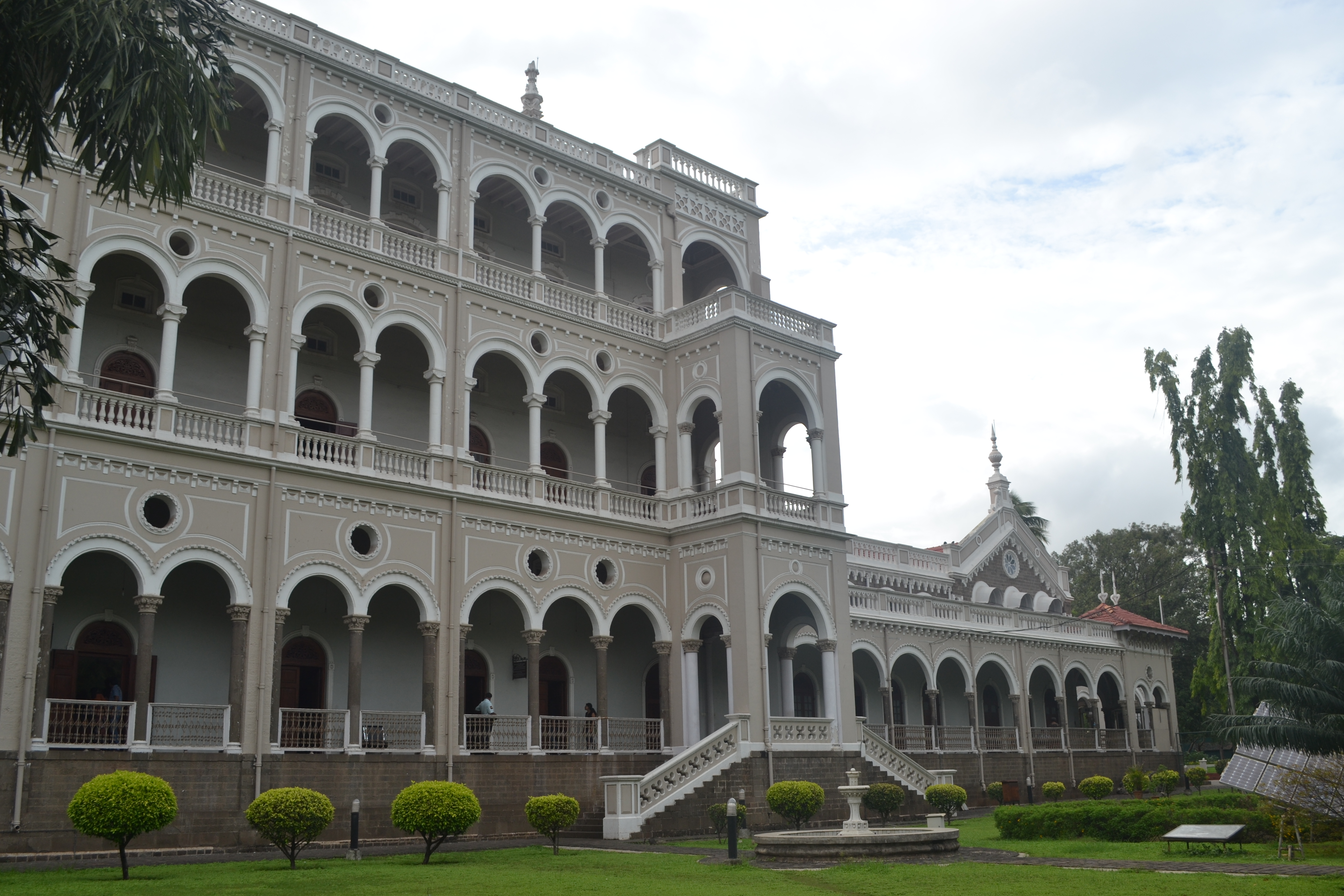 Aga Khan Palace Building